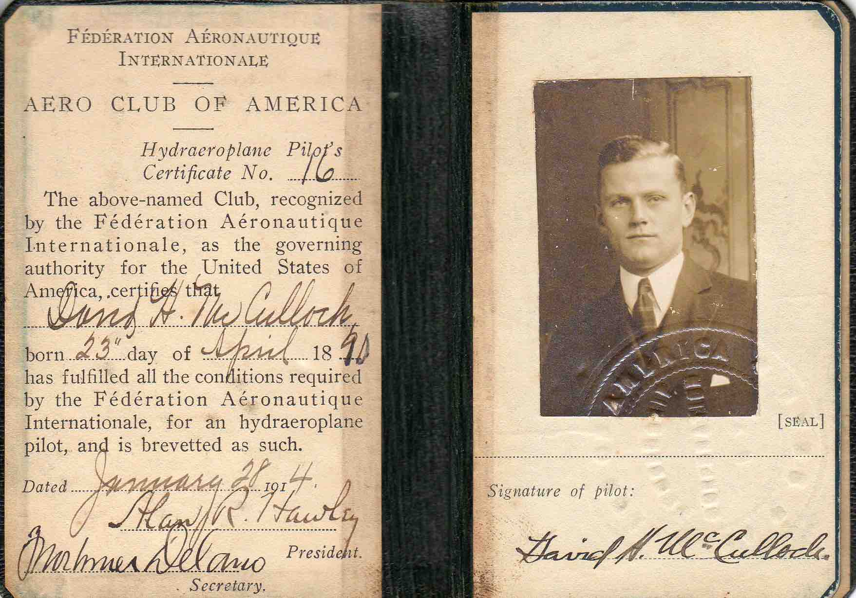 This is a certificate granted to early American fliers who qualified by the Aero Club of America. The Aero Club of America has transformed into the National Aeronautical Association. David Hugh McCulloch who was granted this certificate was an early American aviator.